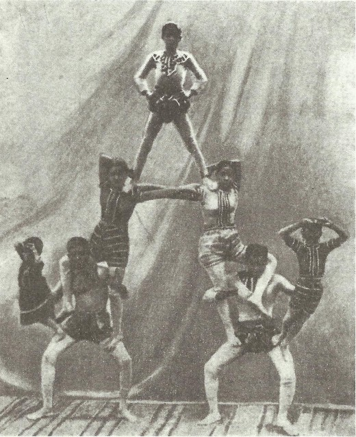 Photography of pyramid act by Great Bengal Circus. Upper row: Manmathanath Dey, who later became world famous jockey and known for his bareback riding prowess. Middle row: Kumudini, Sushila Sundari Lower row: Unknown child artist, Shib Chandra Baral, Pannalal Bardhan, unknown child artist